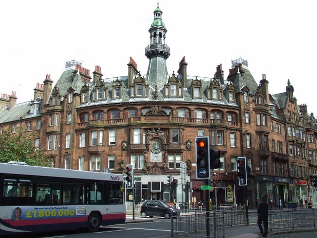 Charing Cross Mansions At the corner of Sauchiehall Street and St George's Road.